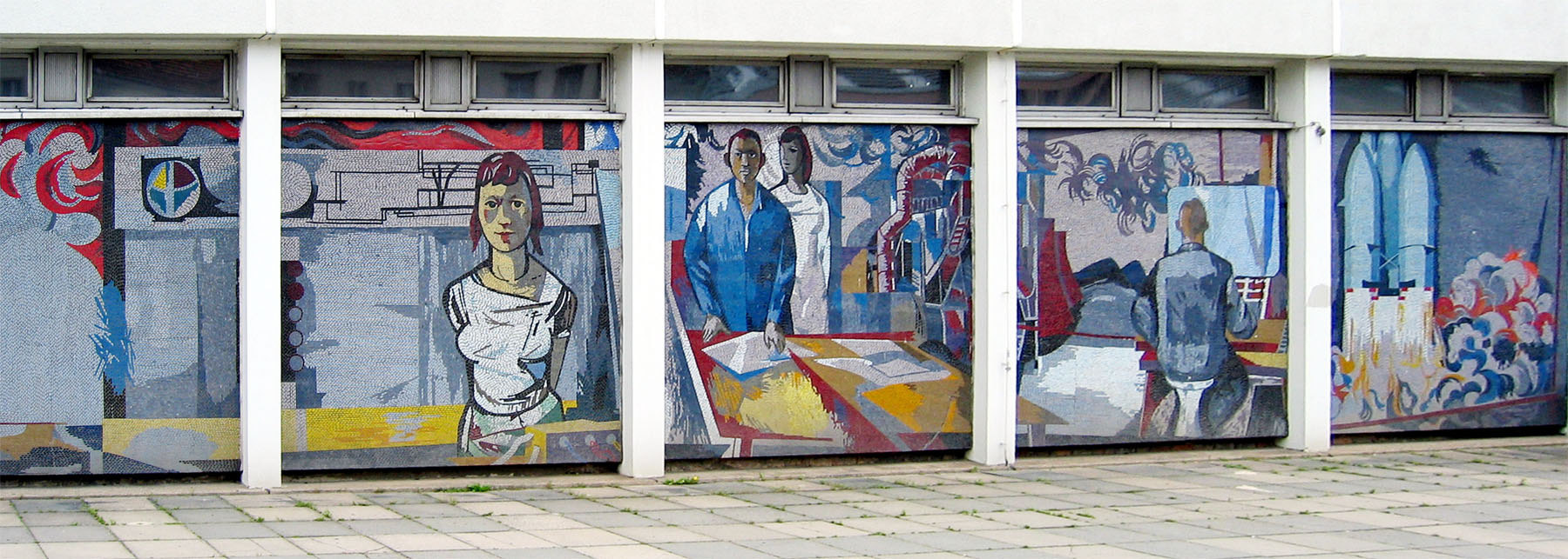 Part of a mural mosaic from the GDR (»Der Mensch bezwingt den Kosmos« by artist Fritz Eisel) in Potsdam, Germany, at the base of a former data centre.